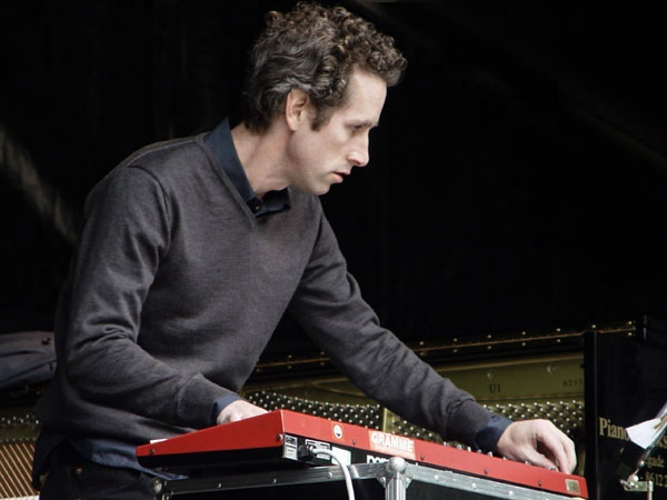 Nick Ramm @ Aarhus Jazz Festival (Denmark 2011)